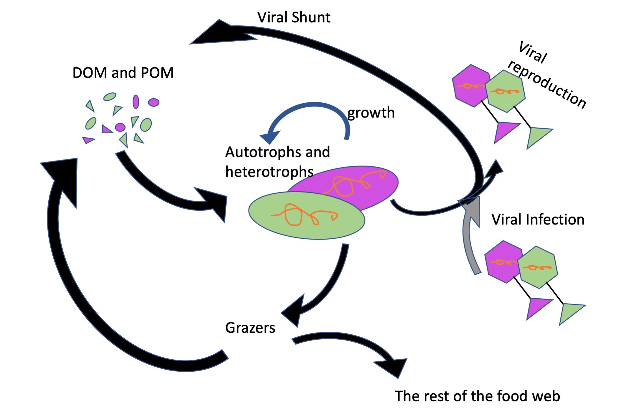 Visual description of DOM/POM flow through the food web, including the location in the process where viral shunt occurs.